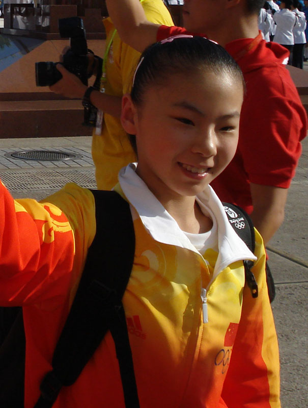 He Kexin